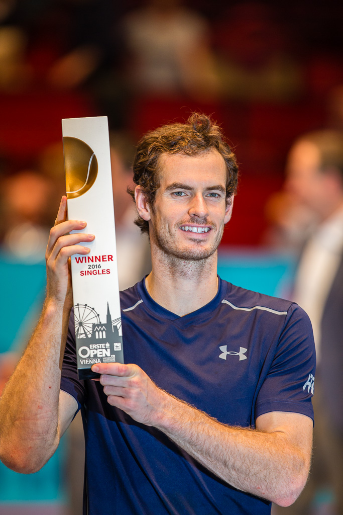 Erste Bank Open ATP World Tour 500 in Vienna 2016